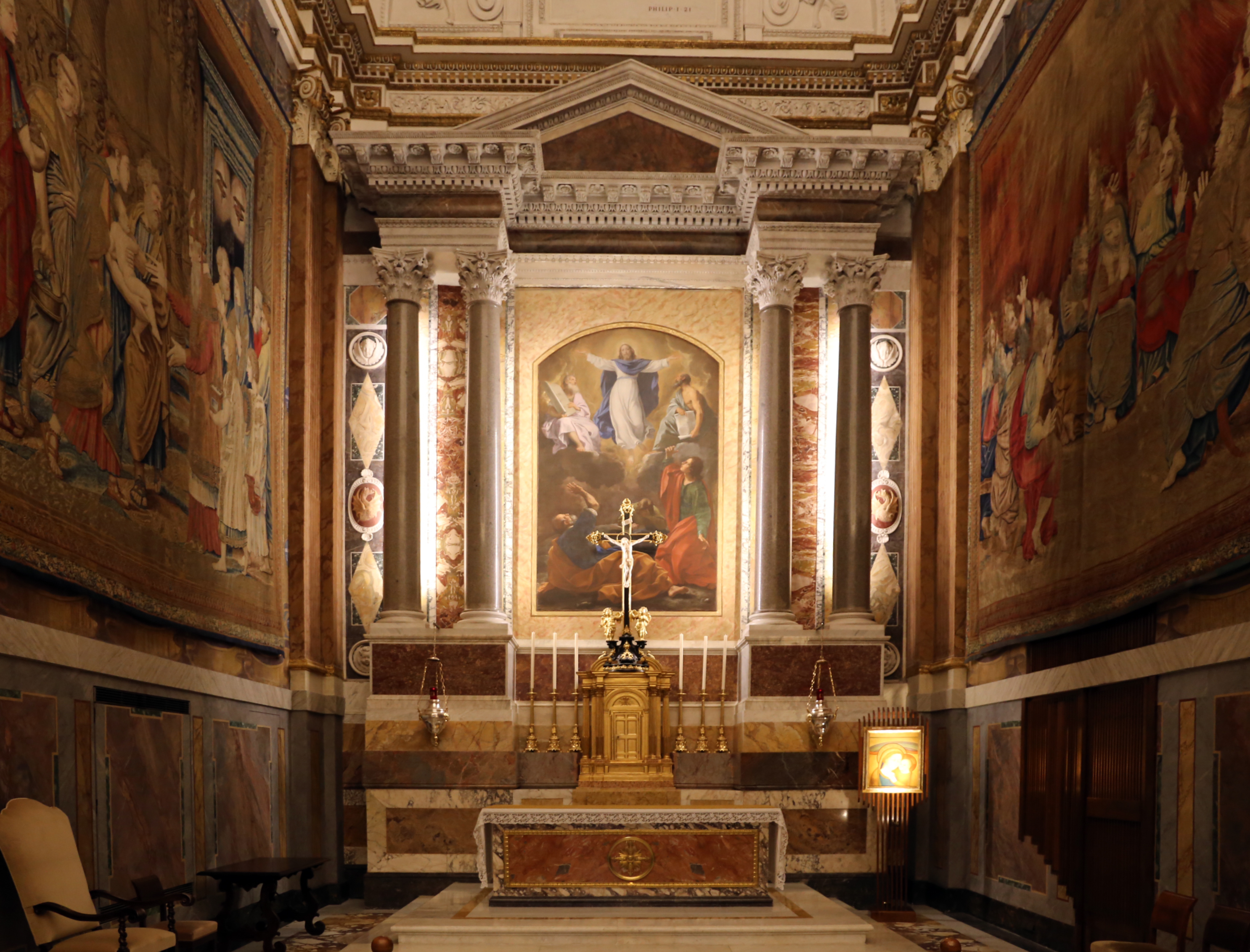 Cappella Paolina, Palazzi Pontifici, Vatican